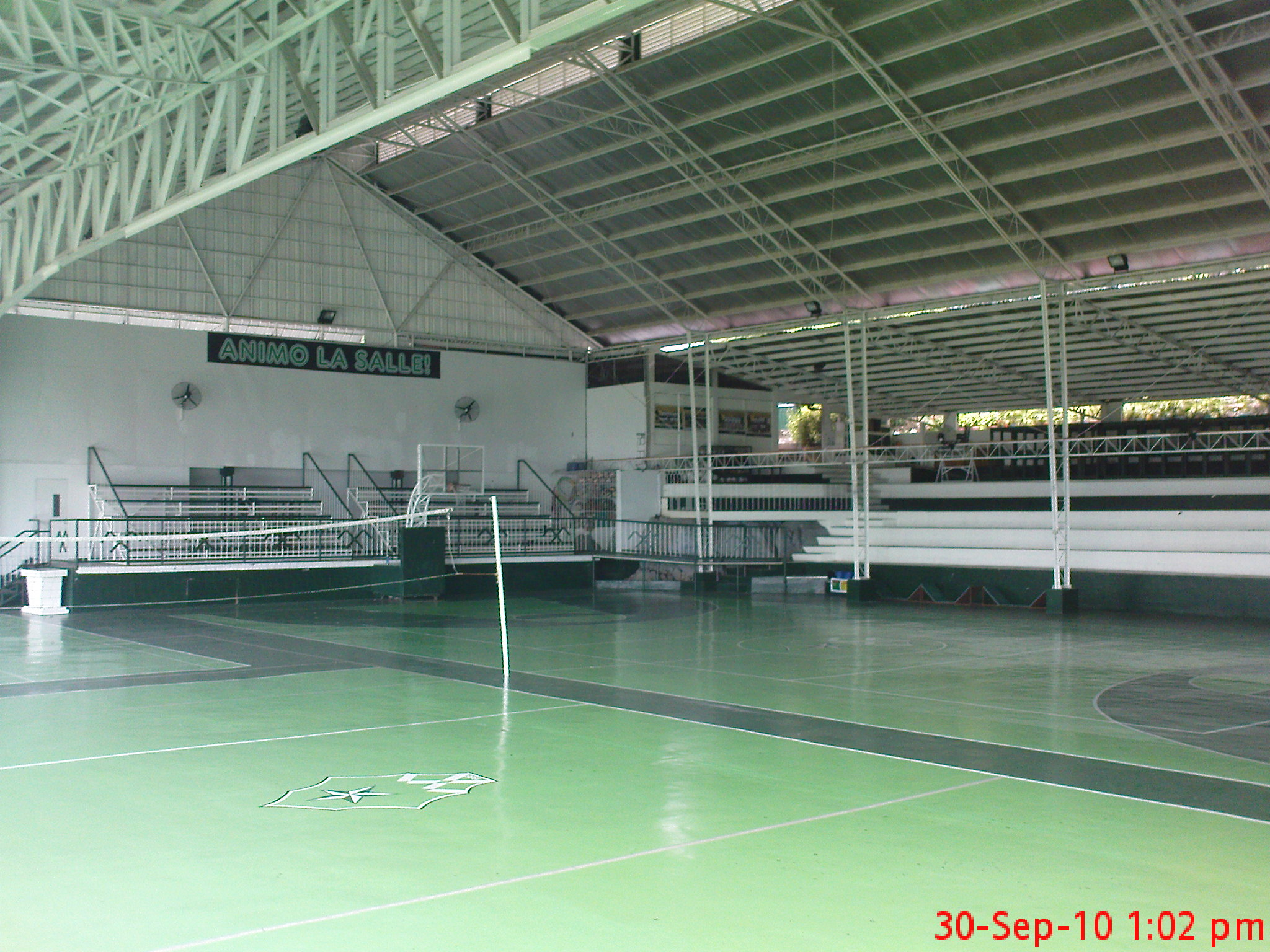 LSCA GYM